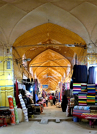 Jahrom Bazaar Cut from File:Charsouq-stitched_(cut).png